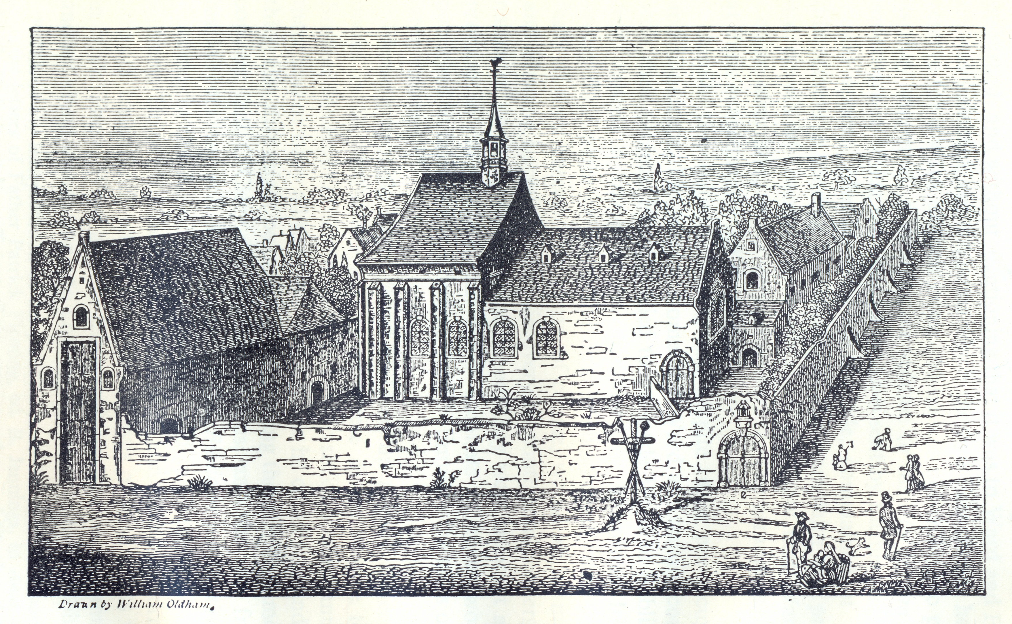 View of St. Anthony's College, Leuven, in the early 18th century. Caption in the cited source: St. Anthony's College, Louvain (As it was in the early part of the 18th century).